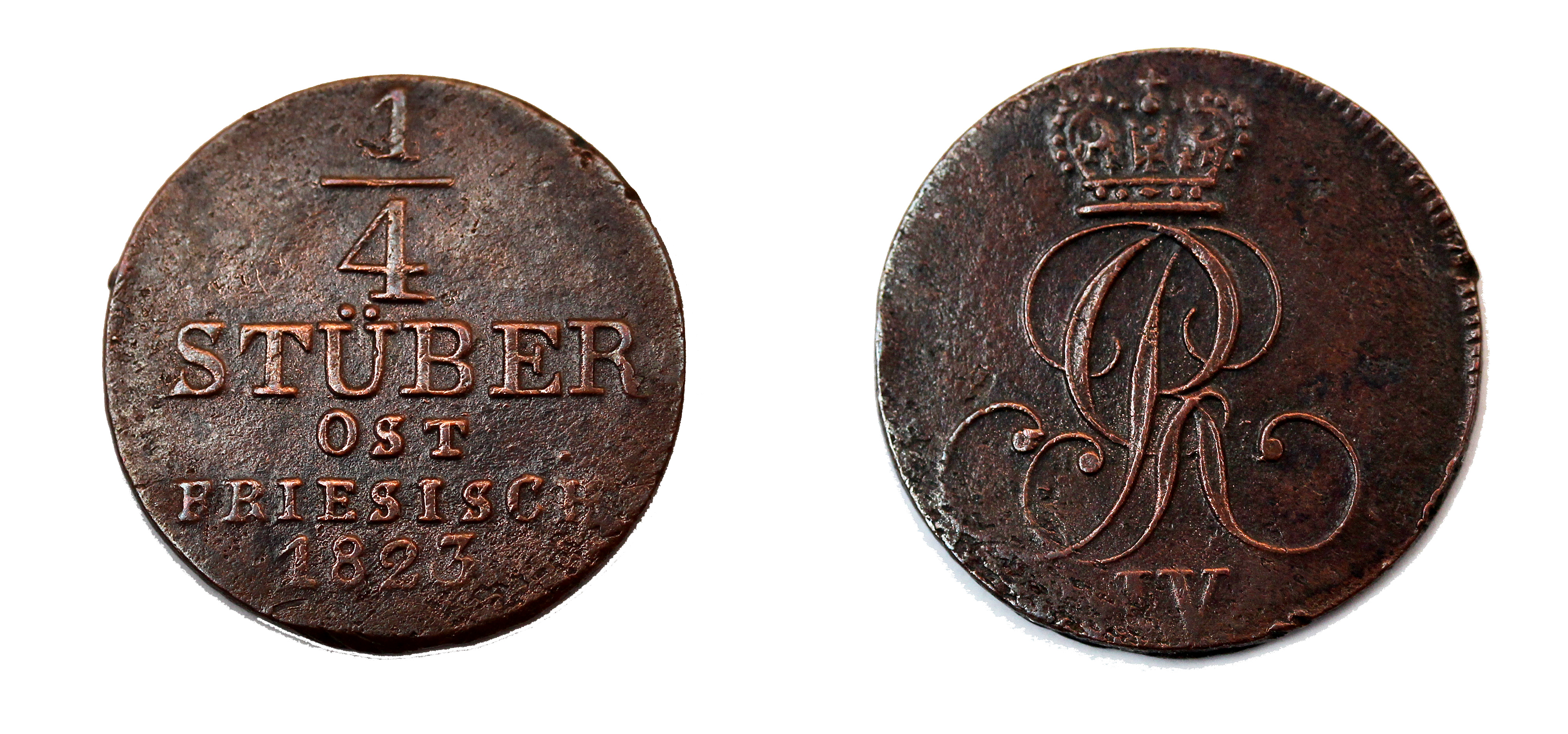 1/4 Stüber. Hannover for Ostfriesland (1823). Welter 3033. AKS 53.